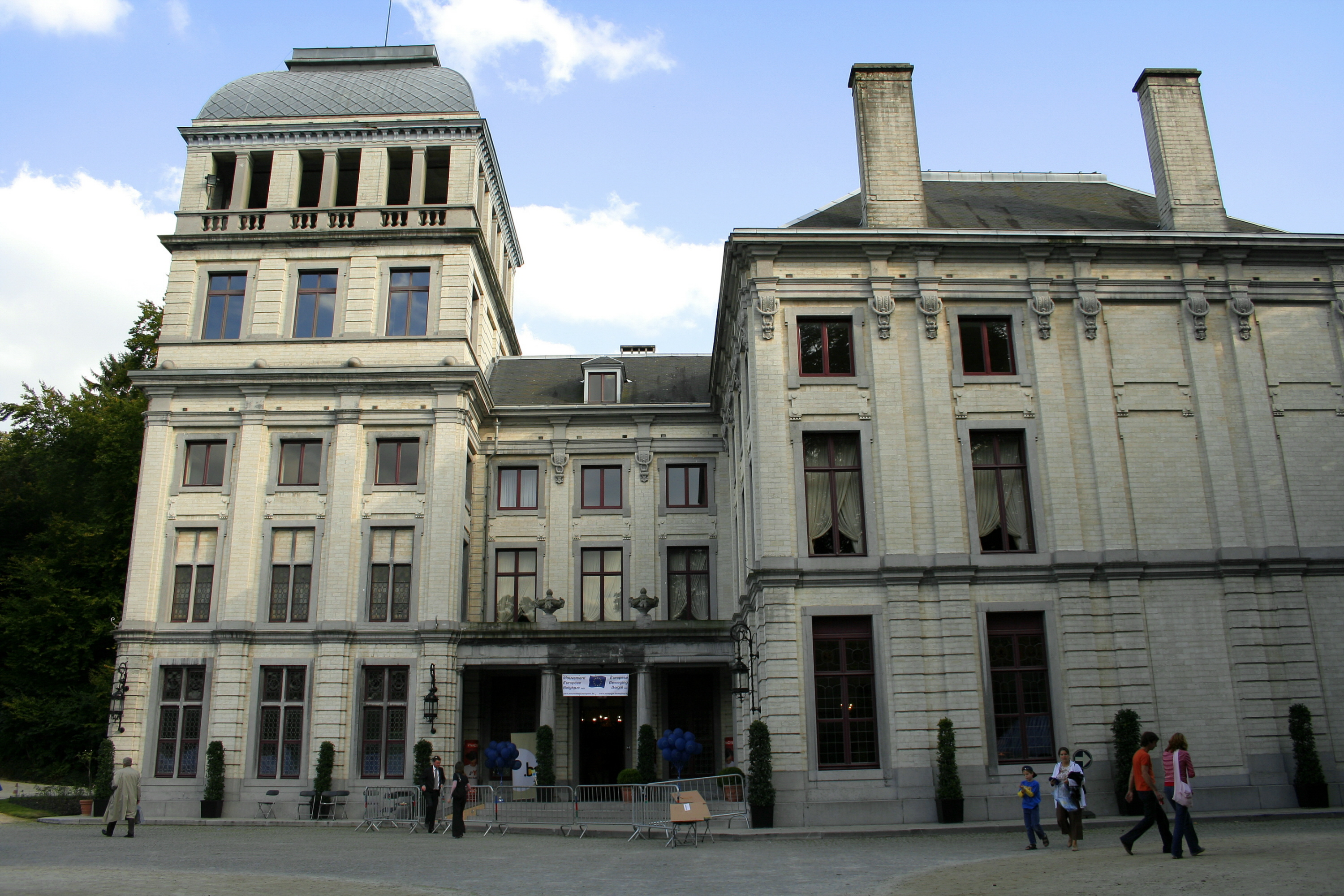 Auderghem/Oudergem (Belgium), the Val Duchesse « priory » .